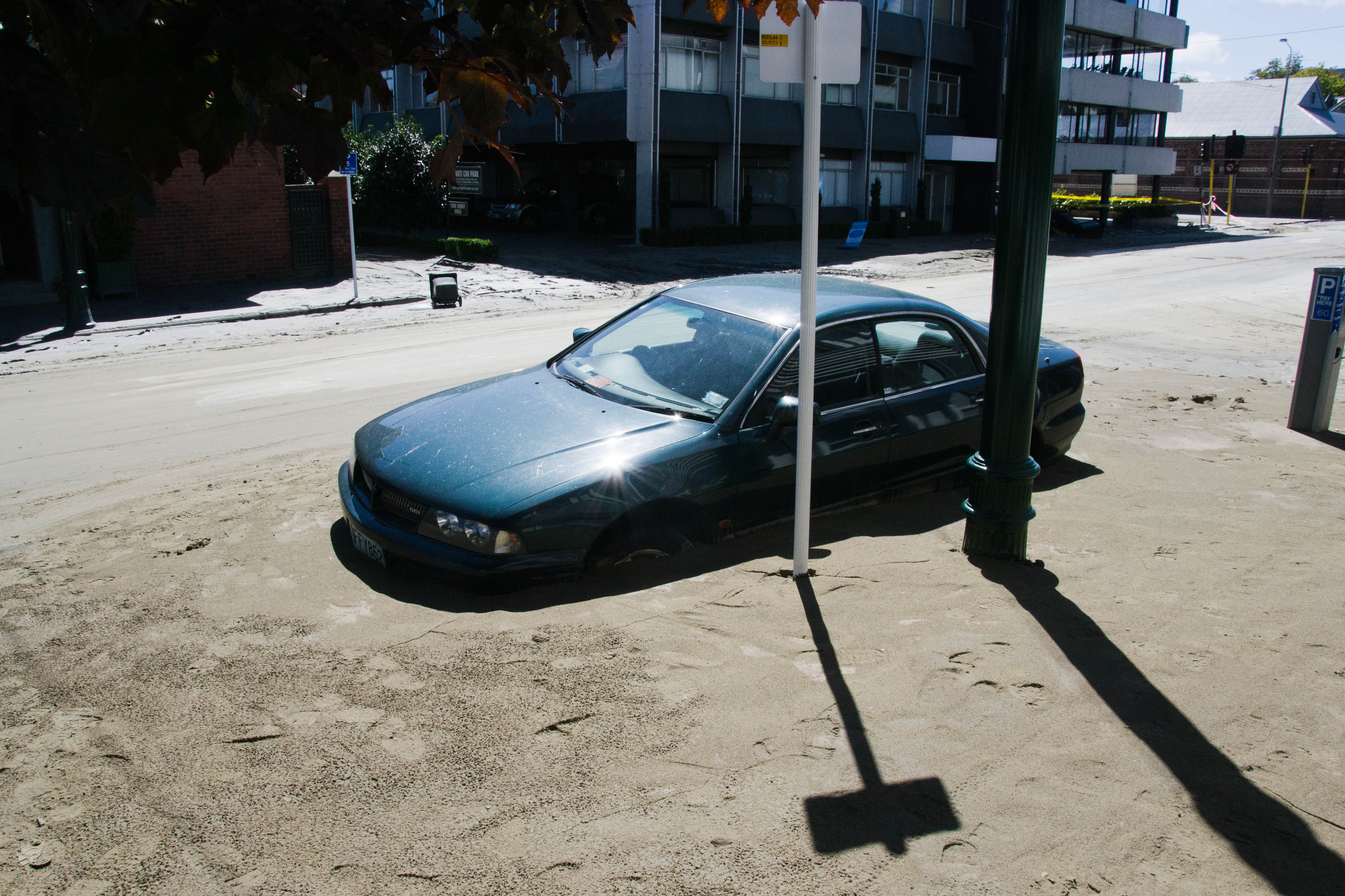 A car in liquefaction mud, Christchurch, 24 February 2011.